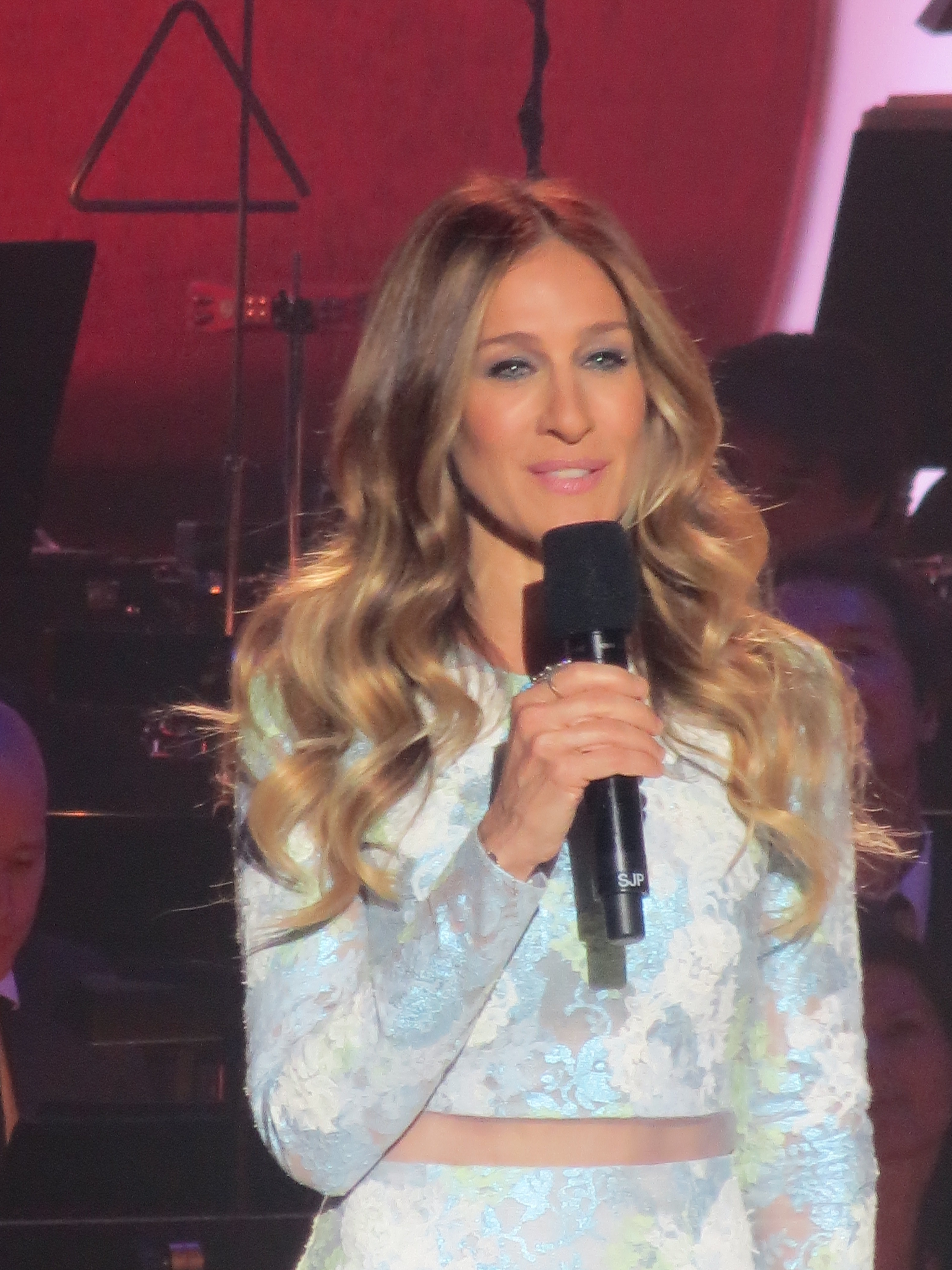 Photo from the 2012 Nobel Peace Prize Concert in Oslo Spektrum arena, Oslo, Norway. Hosts of the evening were Sarah Jessica Parker and Gerard Butler.